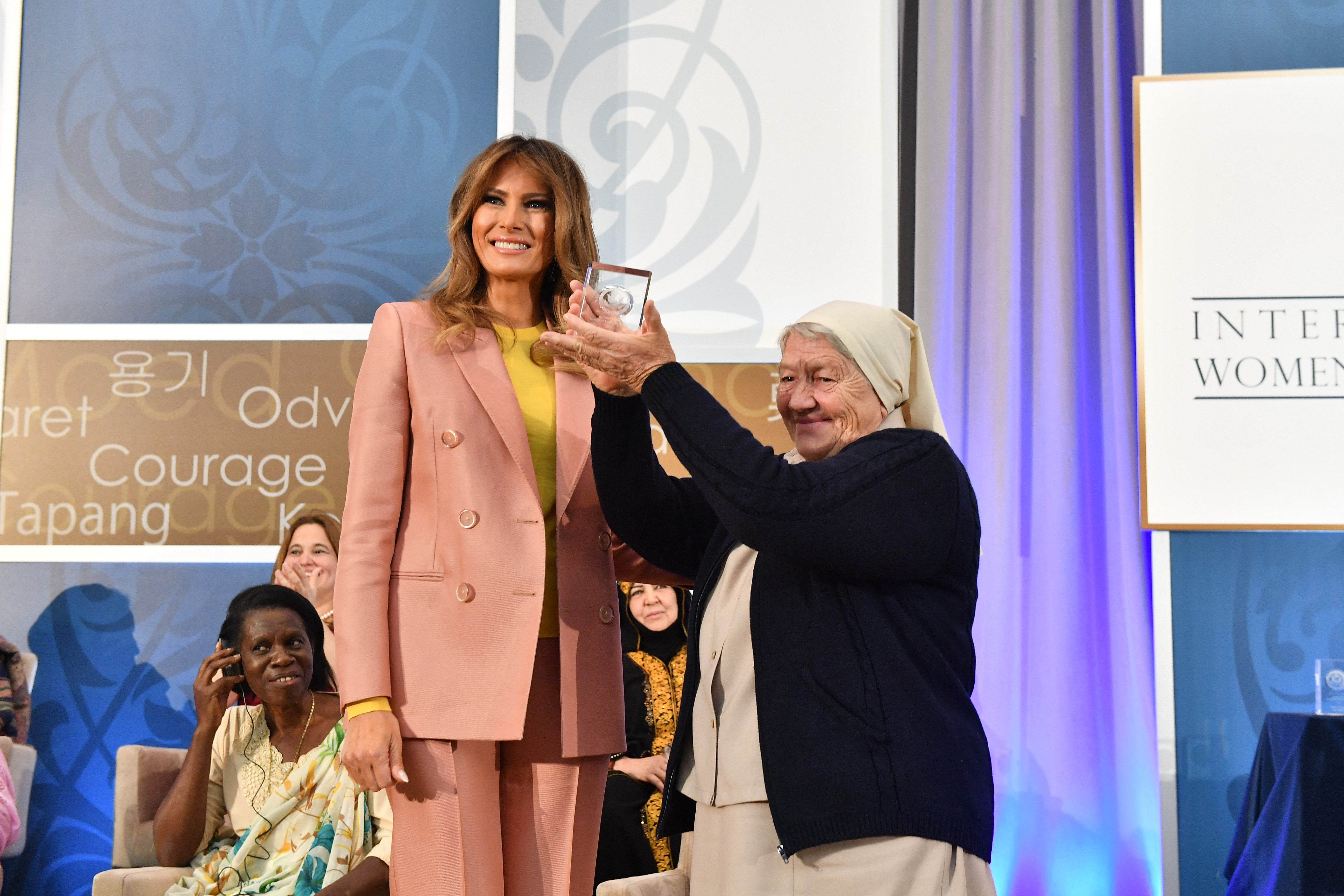 "First Lady Melania Trump Presents the 2018 IWOC Award to Sister Maria Elena Berini of Italy First Lady of the United States Melania Trump presents the 2018 International Women of Courage (IWOC) Award to Sister Maria Elena Berini of Italy (nominated by the U.S. Embassy to the Holy See) during a ceremony at the U.S. Department of State in Washington, D.C. on March 23, 2018."